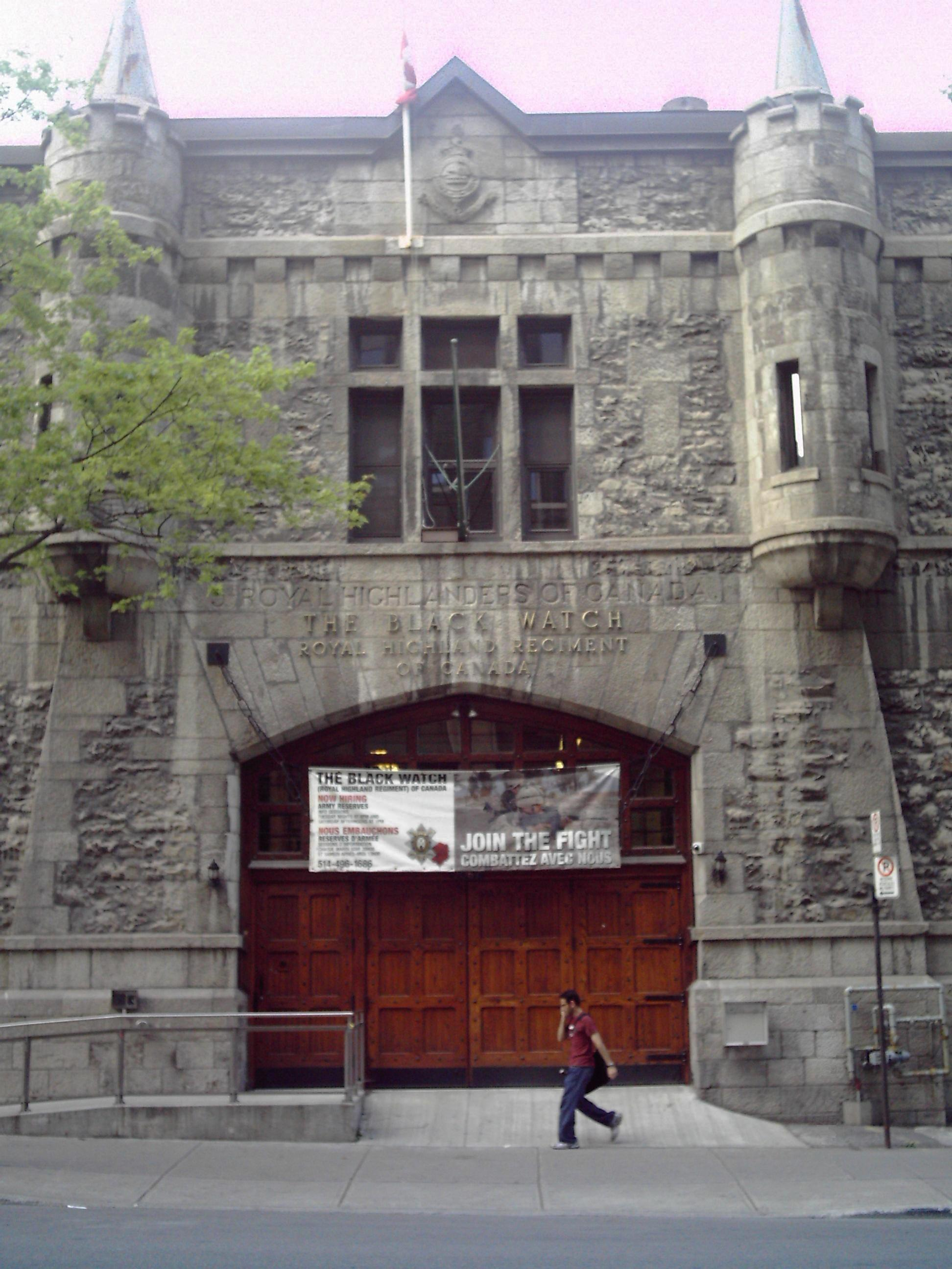 Armoury of the Black Watch of Canada, 2067, Bleury Street, Montreal